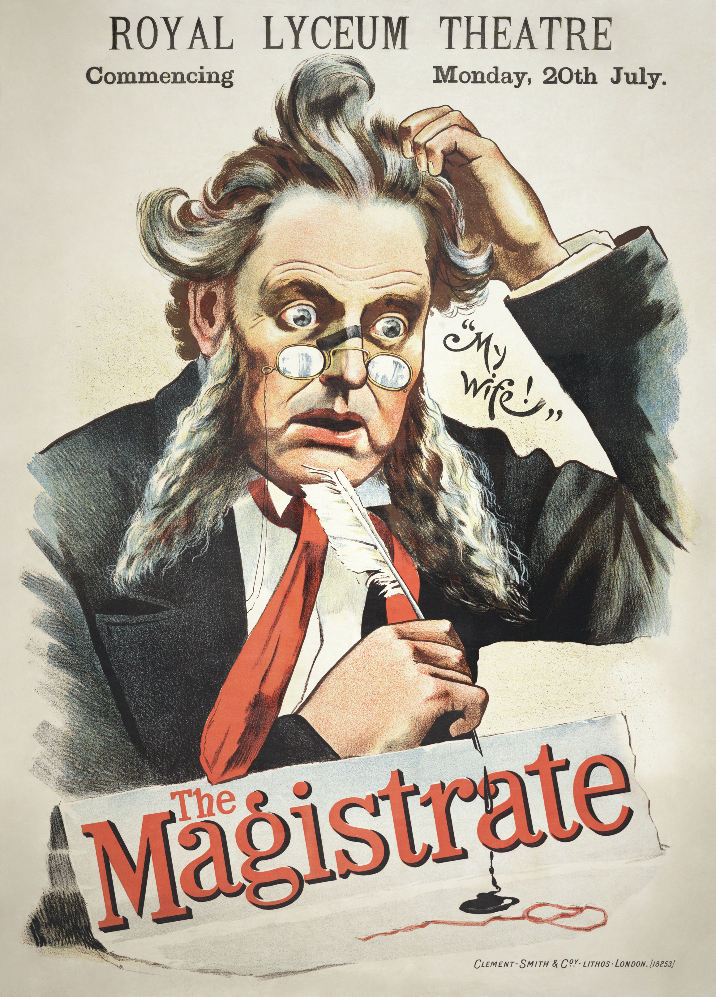 Commencing Monday, 20th July. Caption: 'My Wife!'. 'The Magistrate'. Printed by Clement-Smith & Co[mpan]y, Lithographer, London.